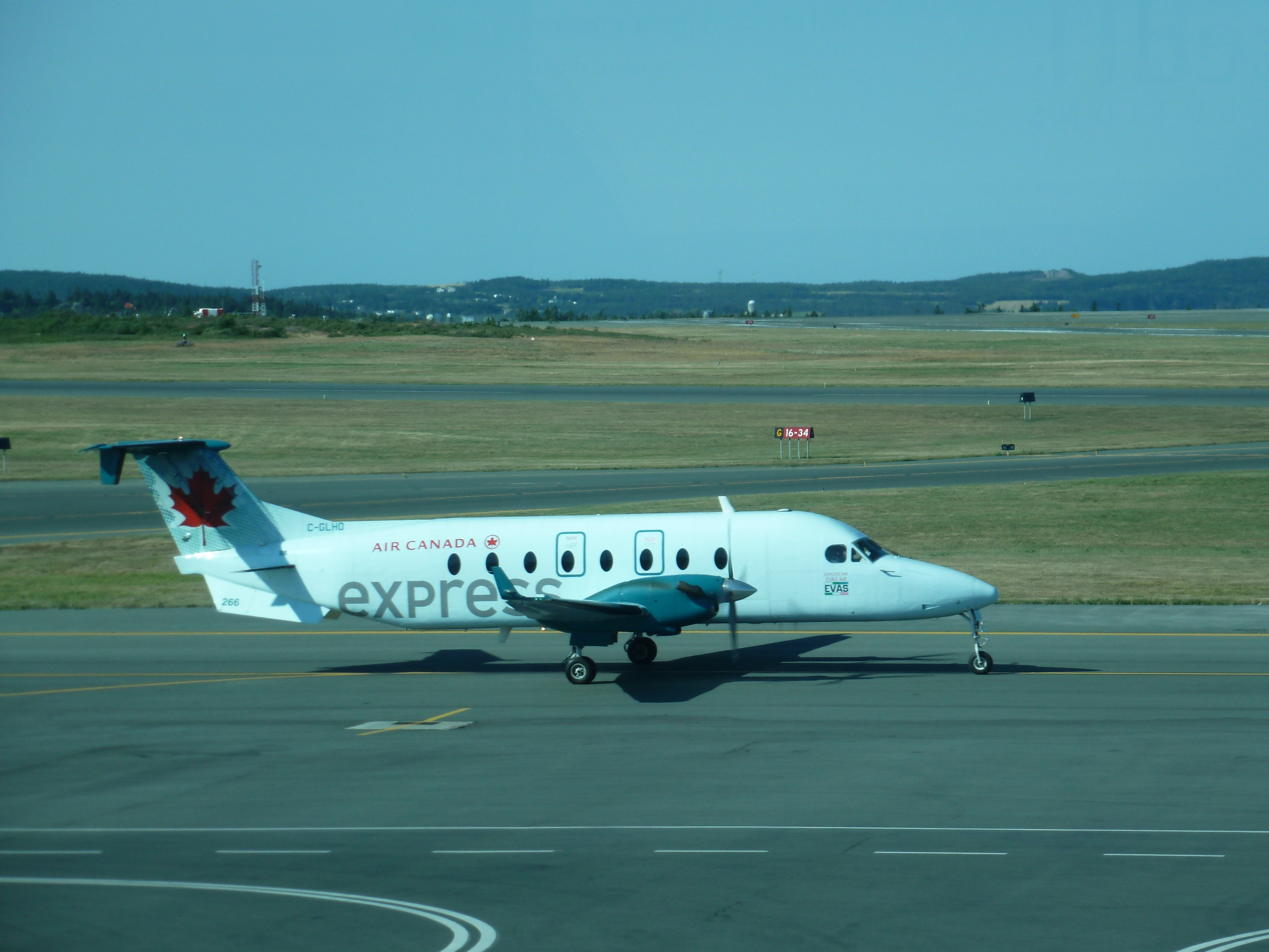 EVAS Air Beechcraft 1900 C-GLHO seen at St. John's International Airport on 24 July 2012, painted in Air Canada Express livery.